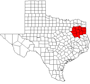 Map of Texas highlighting counties served by the East Texas Council of Governments; created by User:Acntx.